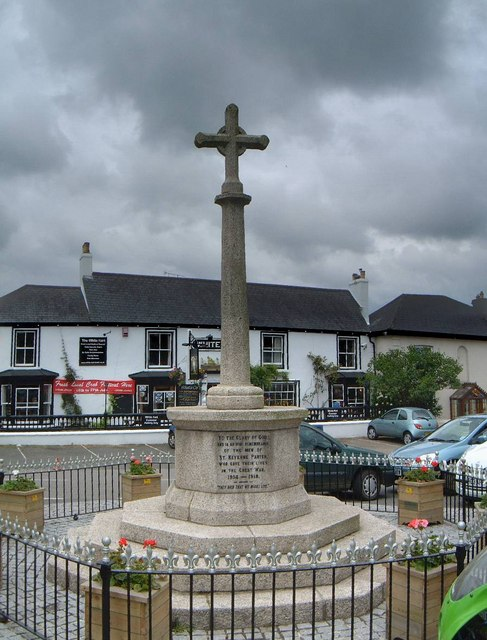 St Keverne Cross